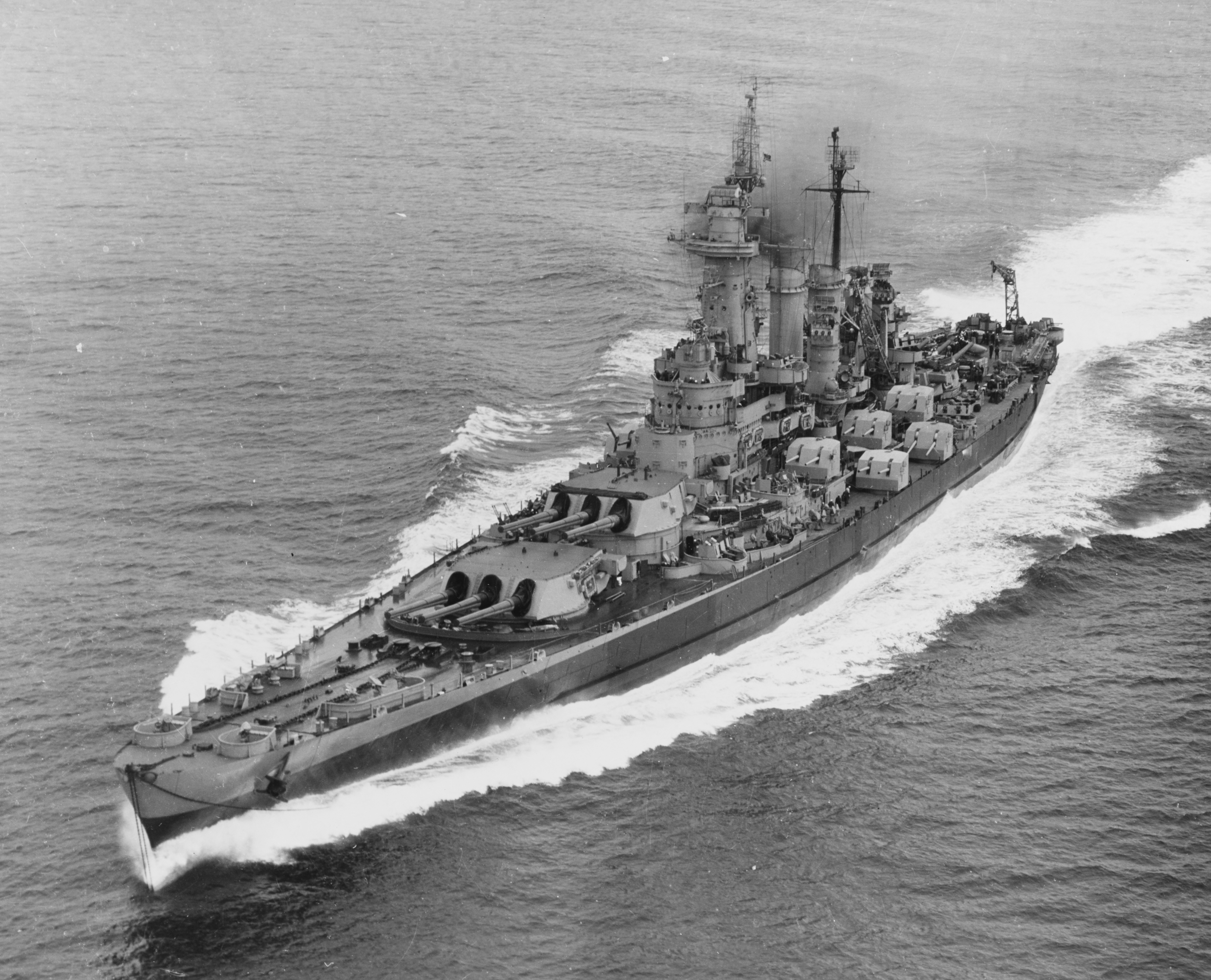 USS Washington (BB-56) running post-overhaul trials in Puget Sound, Washington, on 10 September 1945.